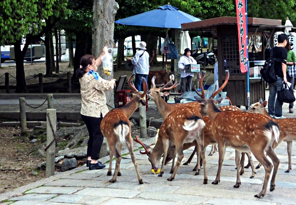 I took this photo in the park in Nara in 2010.